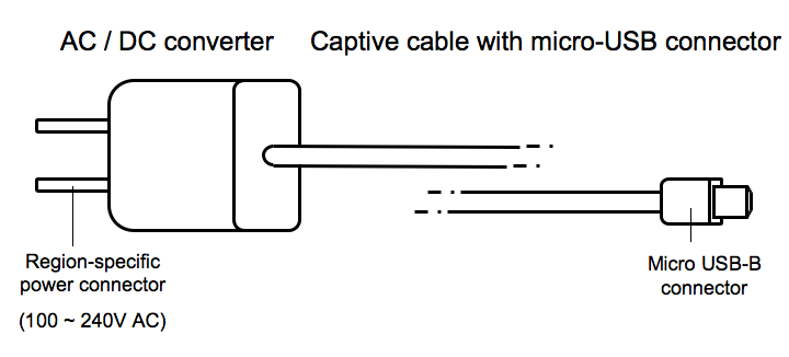 simple diagram of EU Common EPS with captive cable